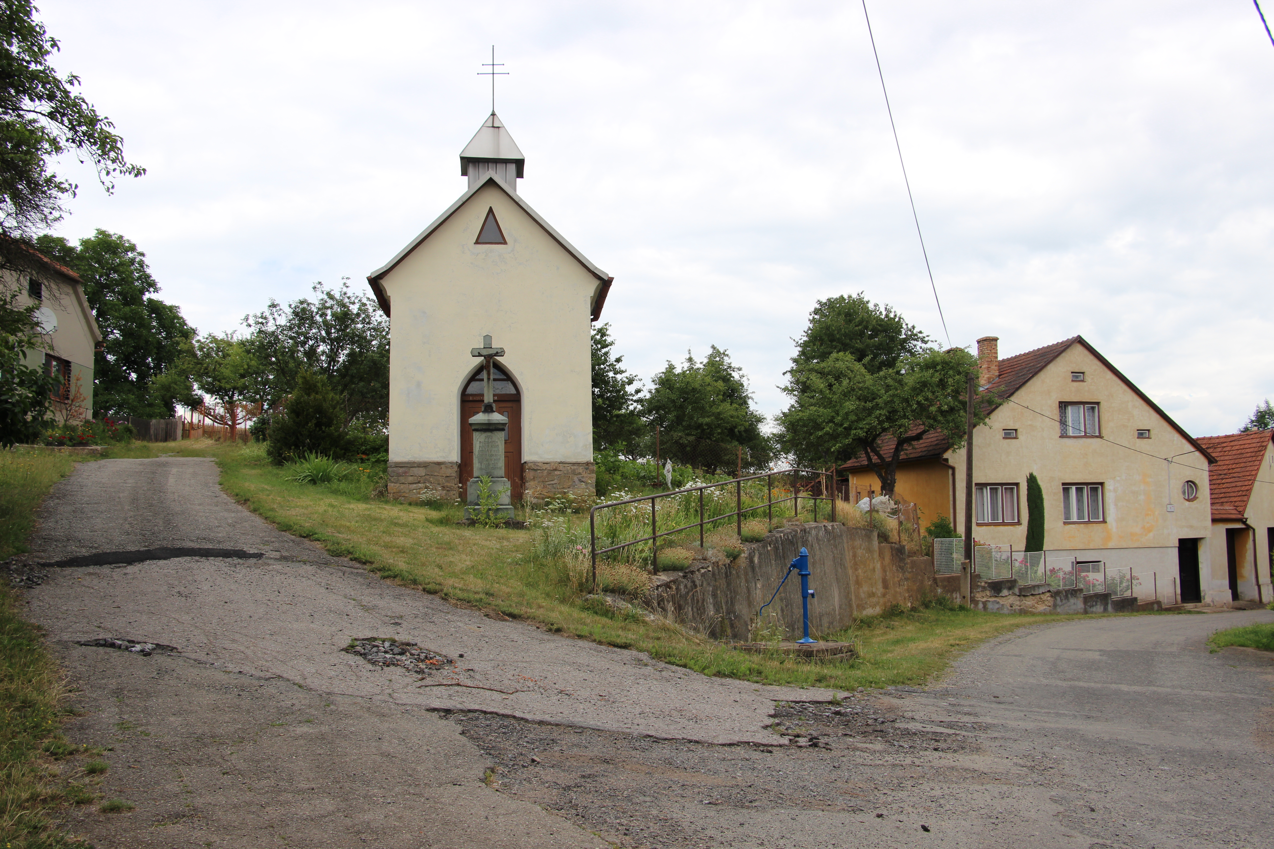 Bezděčí, part of Velké Opatovice, Blansko District, Czech Republic